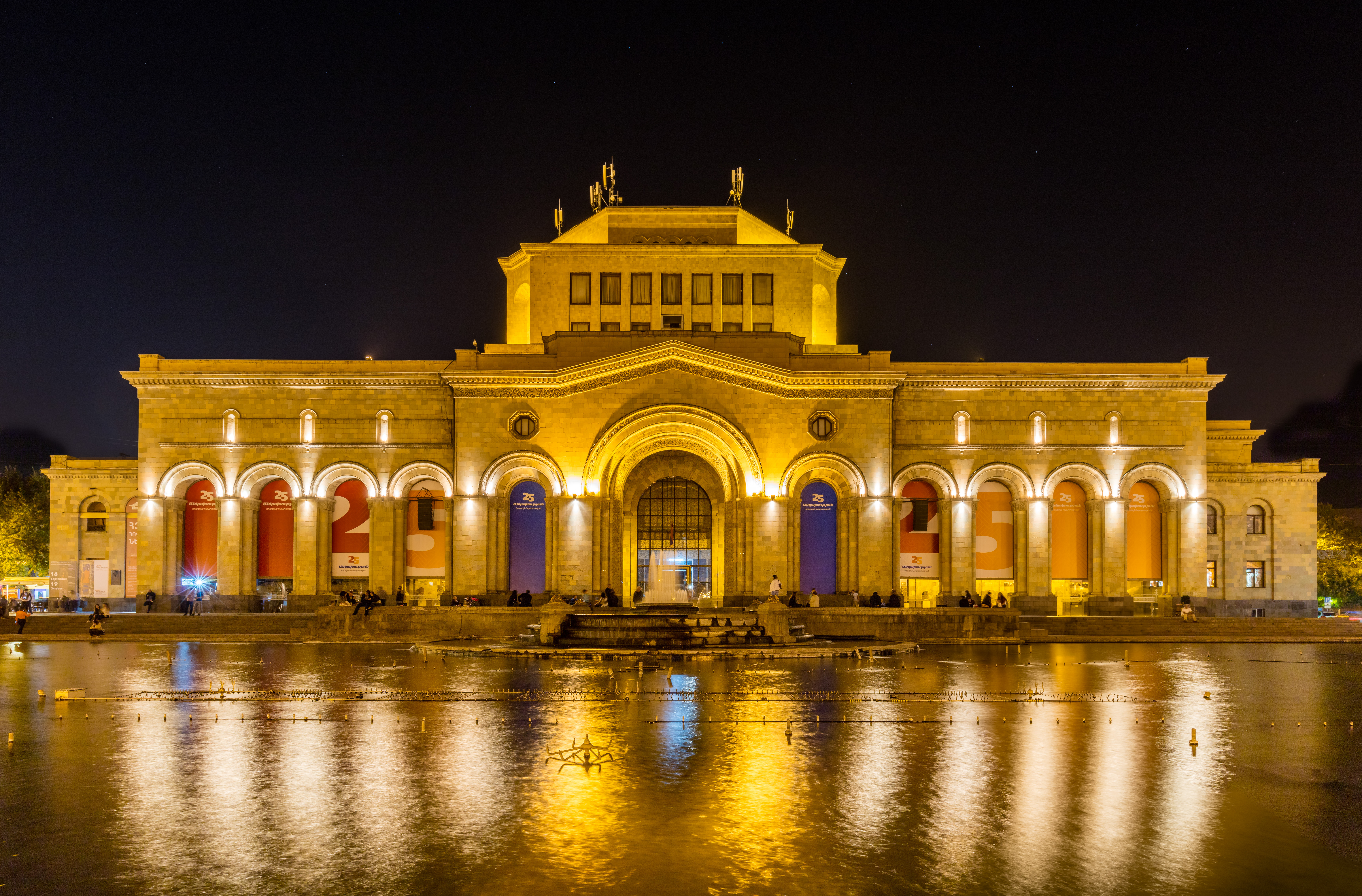 Frontal night view of the History Museum of Armenia, Republic Square, Yerevan, capital of Armenia. The museum, founded in 1920, has 400,000 objects belonging to the departments of Archaeology (35% of the objects), Numismatics (45%), Ethnography (8%), Modern History and Restoration.